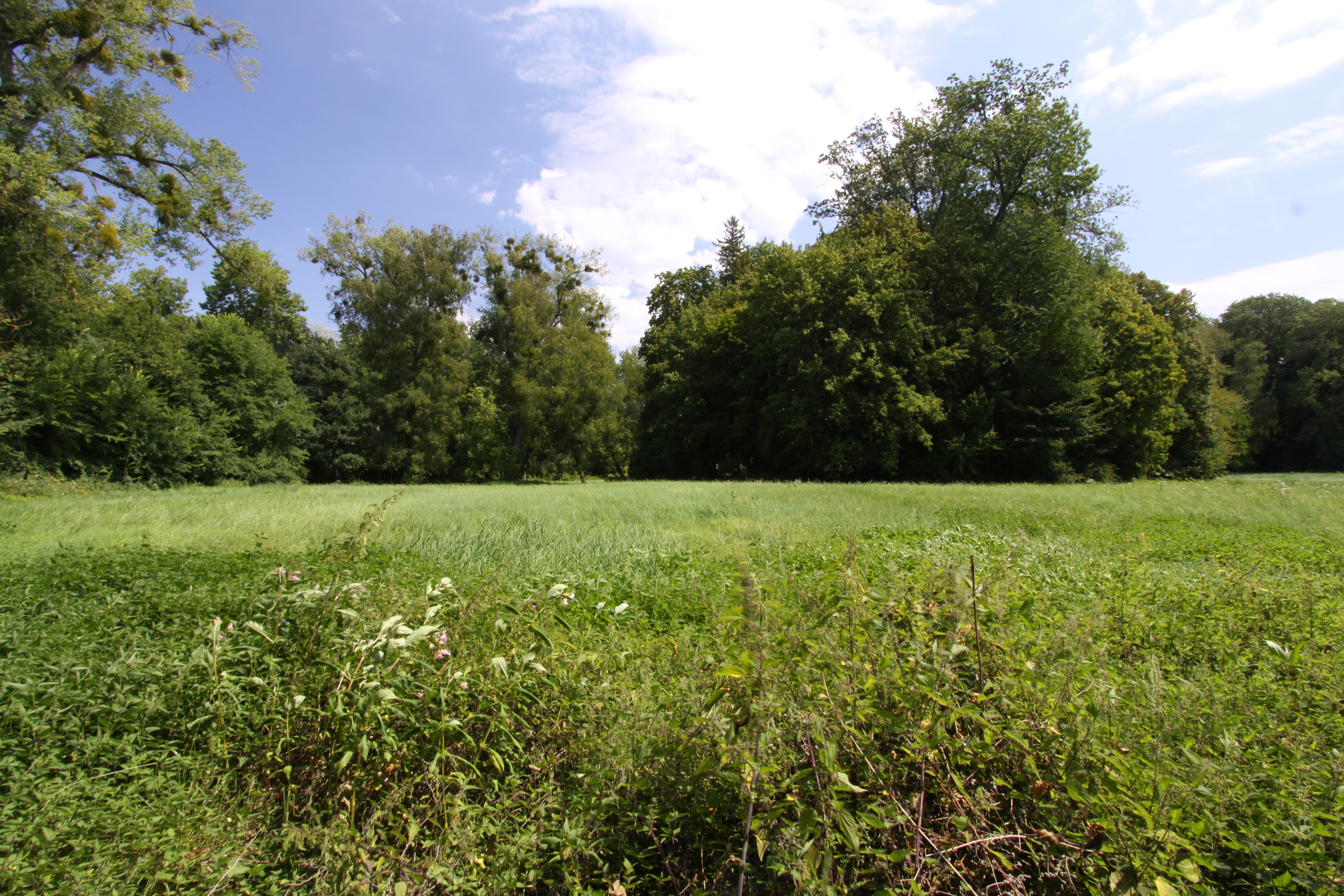 Grengspitz, Site of an Ancient Lakeside Settlement, Greng